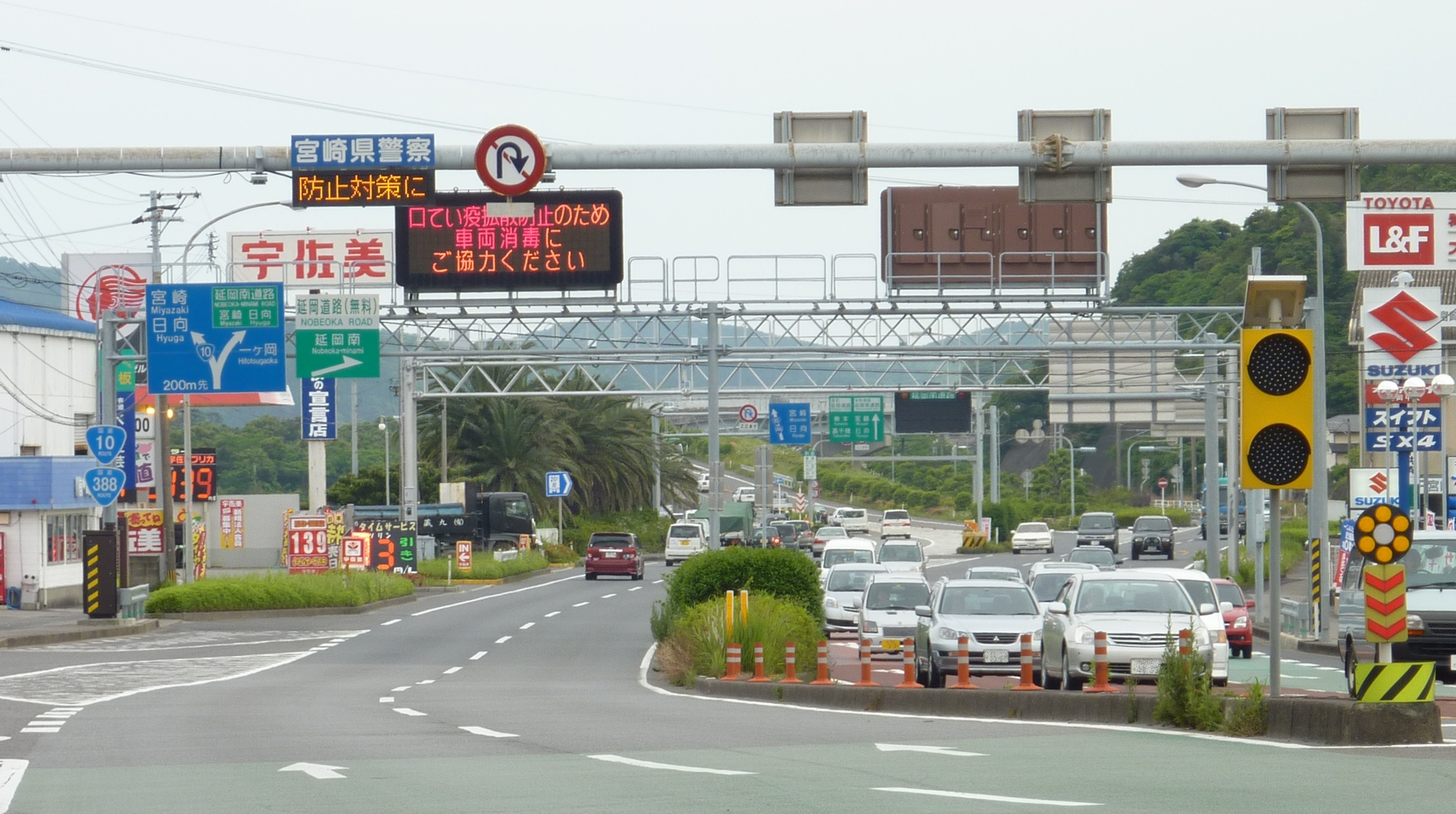 The National Route 10 in Nobeoka City, Miyazaki Prefecture, Japan.